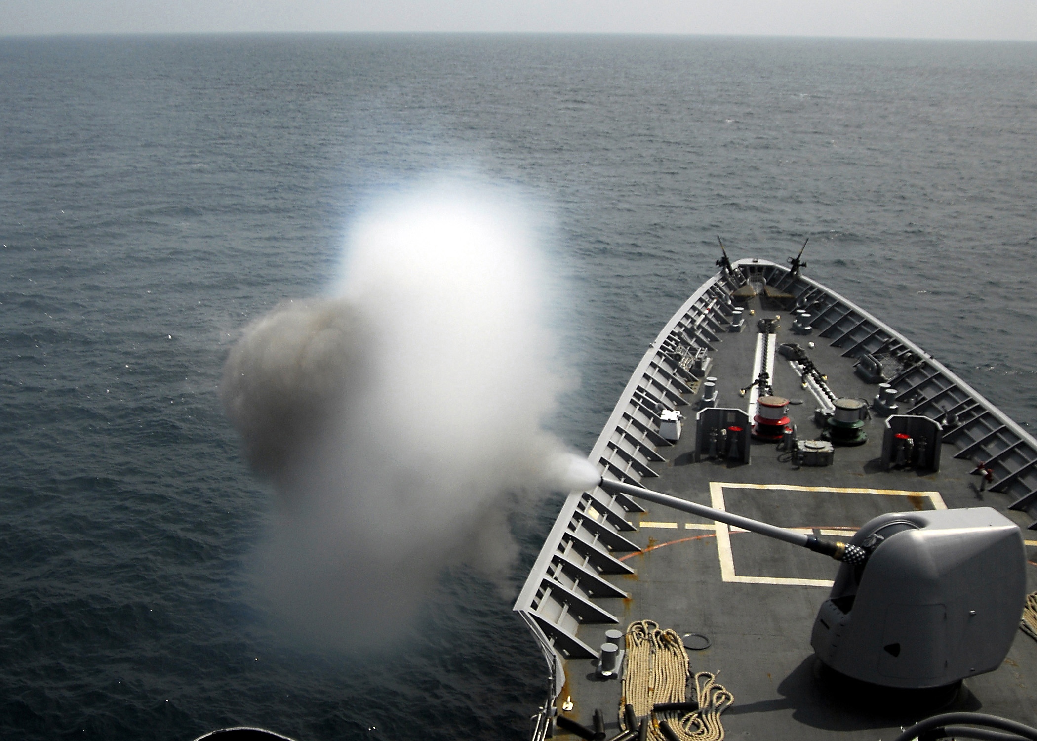 ATLANTIC OCEAN (July 27, 2008) A 5-inch MK-45 Mod 2 light weight gun fires during a live fire exercise aboard the guided-missile cruiser USS Vella Gulf (CG 72). Vella Gulf is participating in Joint Task Force Exercise (JTFEX) 08-4 as a part of the Iwo Jima Expeditionary Strike. (U.S. Navy photo by Mass Communication Specialist Seaman Chad R. Erdmann/Released)